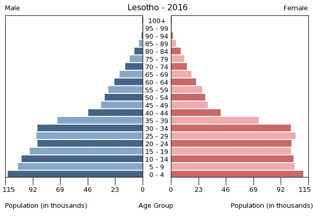 The population pyramid of Lesotho illustrates the age and sex structure of population and may provide insights about political and social stability, as well as economic development. The population is distributed along the horizontal axis, with males shown on the left and females on the right. The male and female populations are broken down into 5-year age groups represented as horizontal bars along the vertical axis, with the youngest age groups at the bottom and the oldest at the top. The shape of the population pyramid gradually evolves over time based on fertility, mortality, and international migration trends.